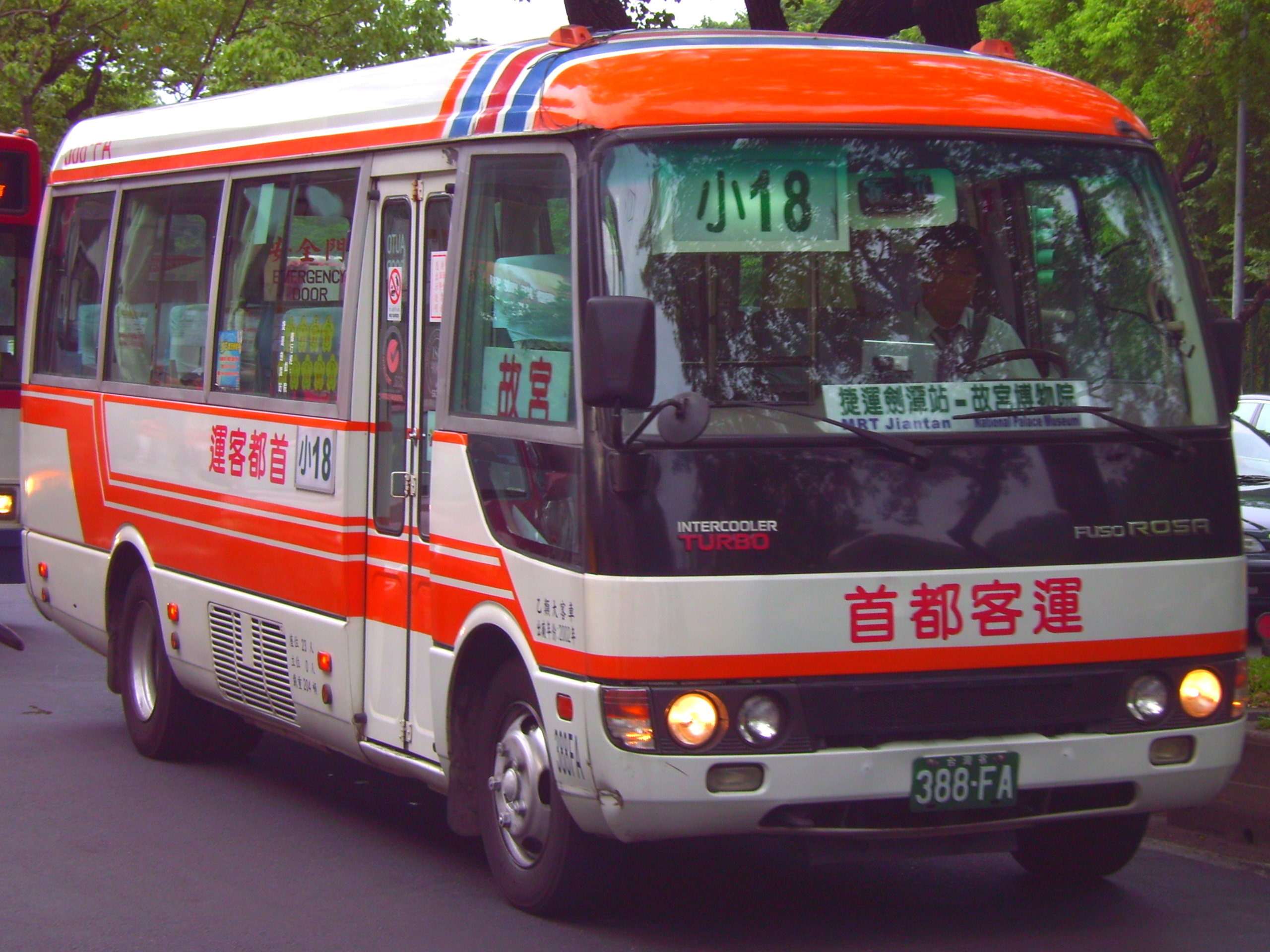 A Mitsubishi Fuso Rosa minibus is operated by Capital Bus Co., Ltd. Taiwan.